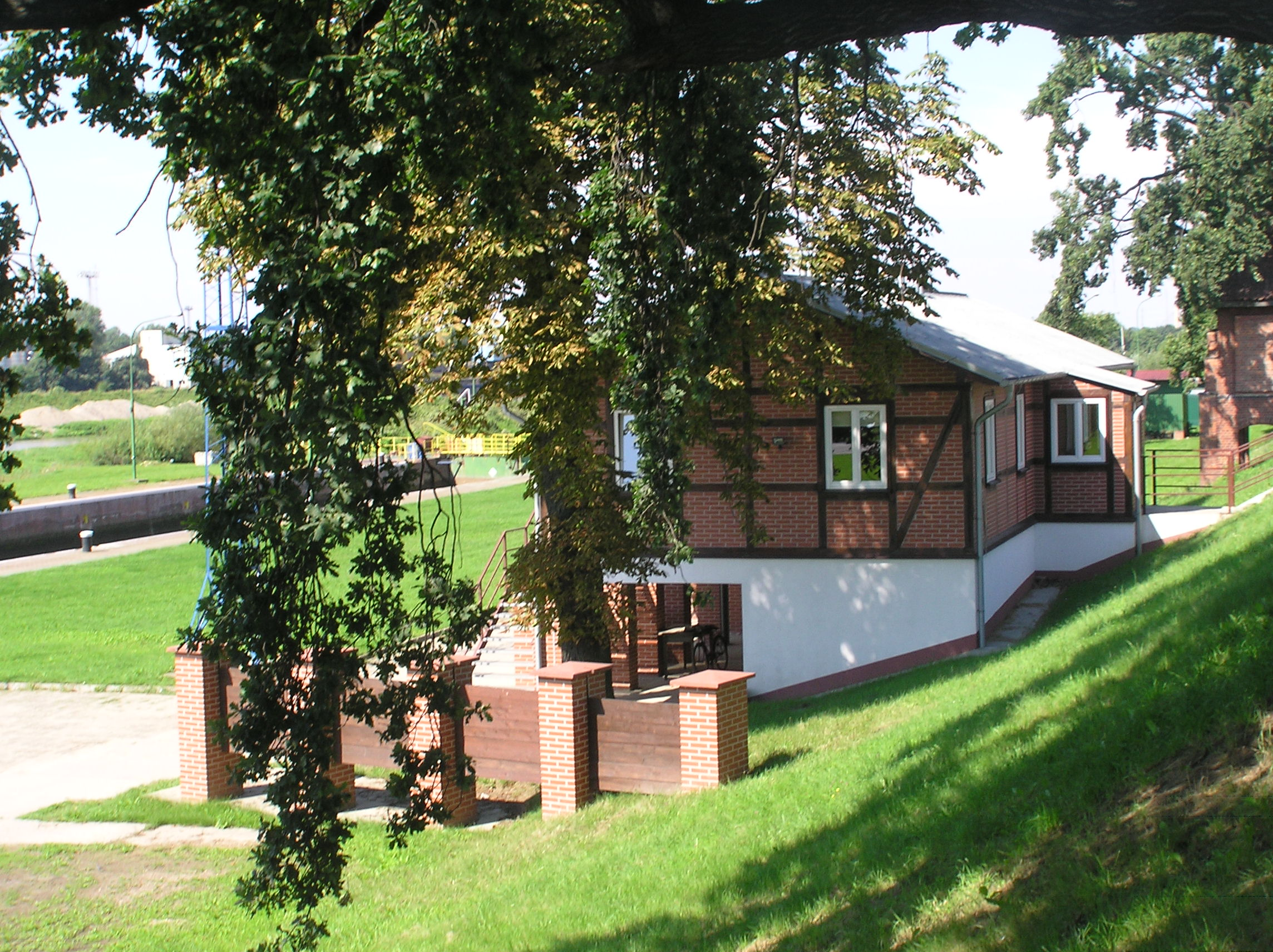 Wrocław, Oder River, Różanka Canal, Różanka Lock